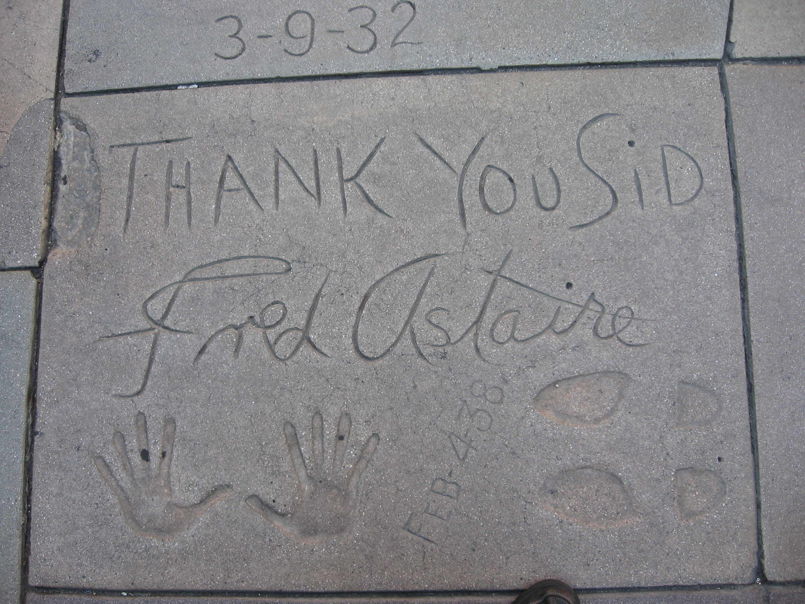 A picture I took of Fred Astaire's feet/hand prints at Grauman's Chinese theater. Taken on September 3, 2007.